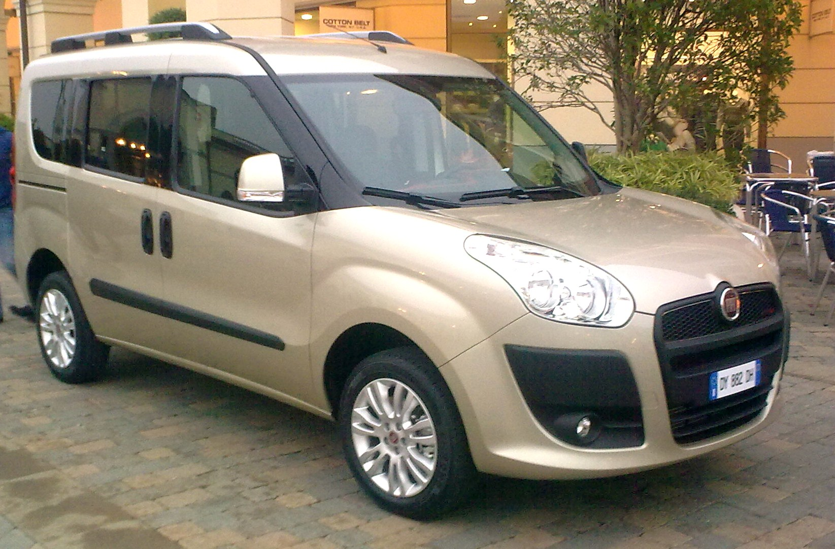 Fiat Doblò Mk2 built in Bursa, Turkey from 2009.